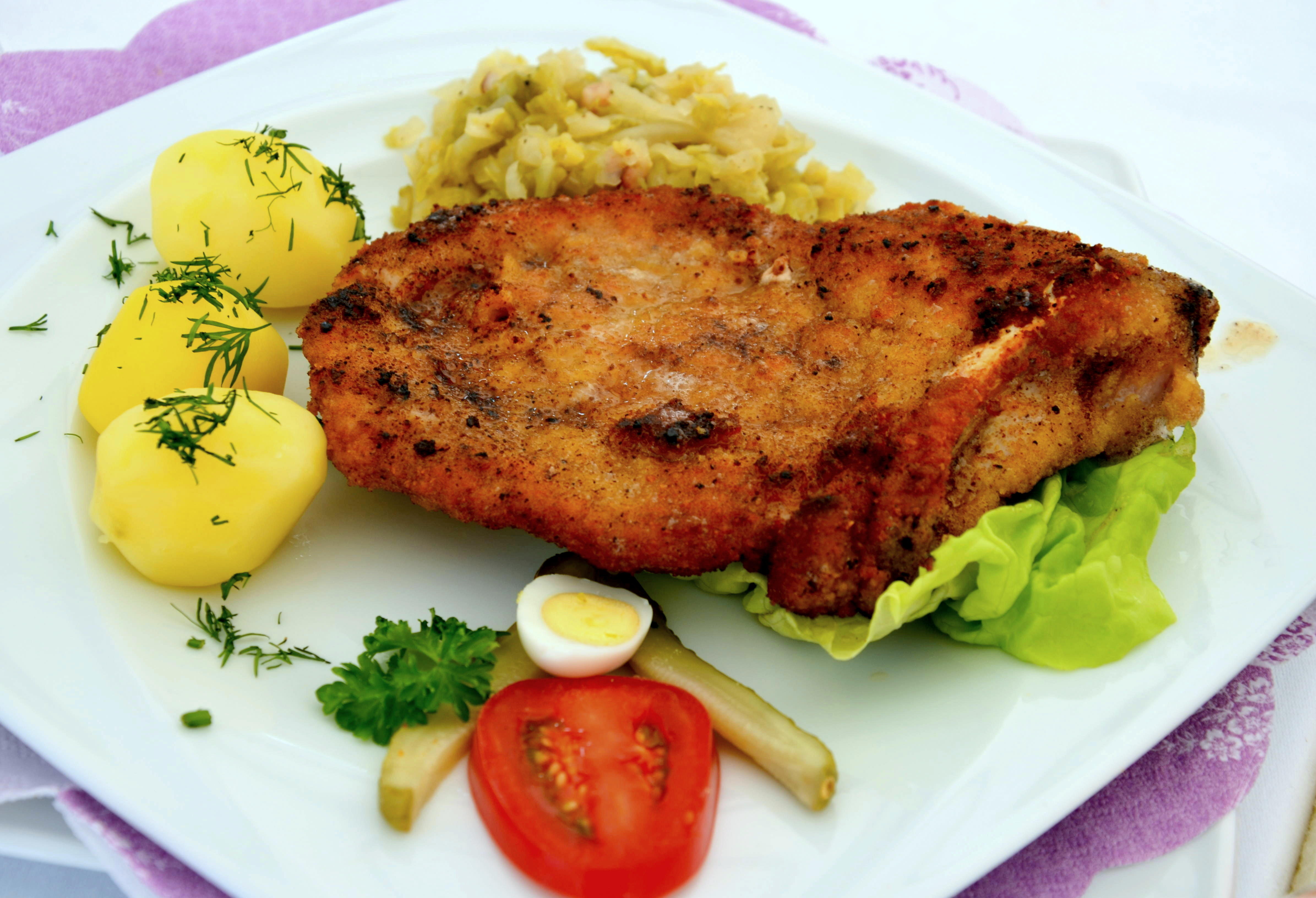 Cuisine of Silesia